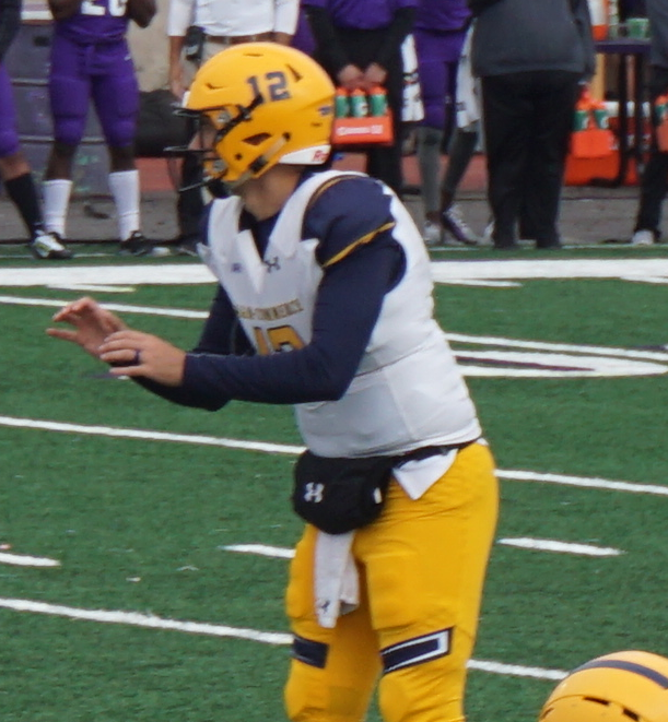 Quarterback Luis Perez for Texas A&M Commerce playing in 2017.